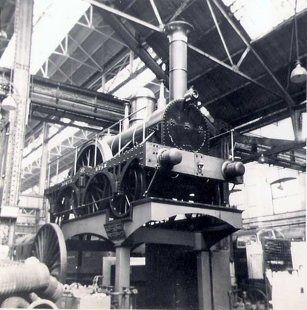 The full-scale replica on its pedestal of the very first Great Western Railway locomotive, the 2-2-2 'North Star, which was built by Robert Stephenson. Photo taken on 25th July 1961 at Swindon Works. Diesel-Hydraulic Warships are in the background. The works had also just started on constructing the larger Western Class Diesel-Hydraulics as well.